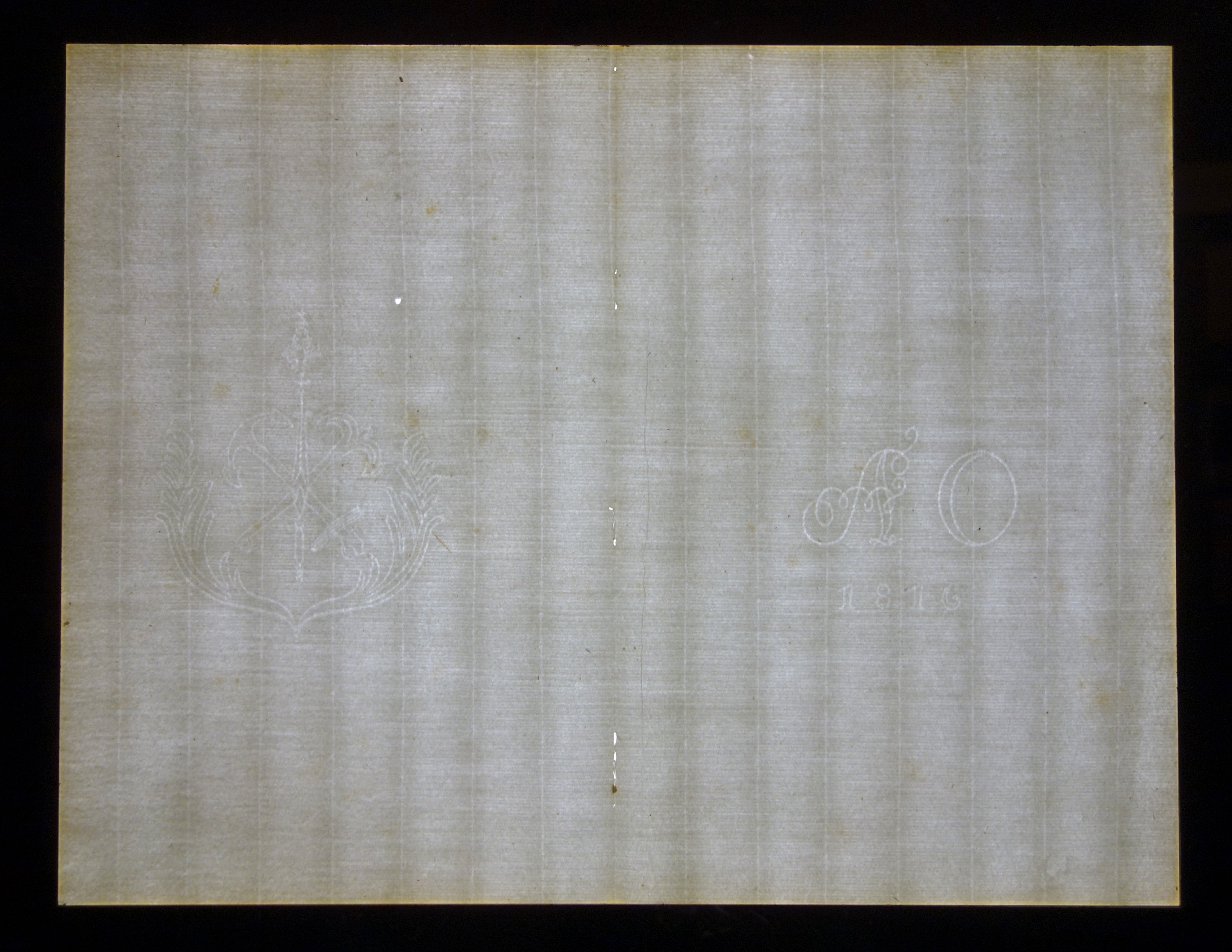 Exhibit in the Robert C. Williams Paper Museum, Atlanta, Georgia, USA. This work is old enough so that it is in the public domain.